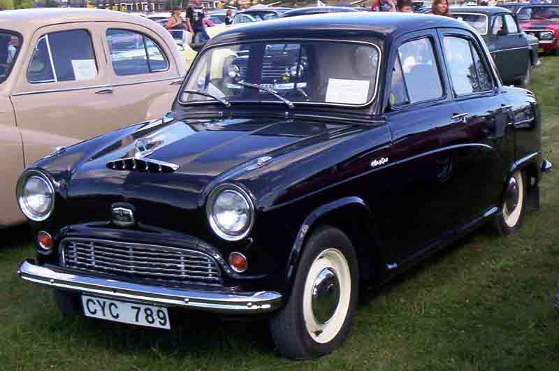 Austin A40 4-Door Sedan 1956